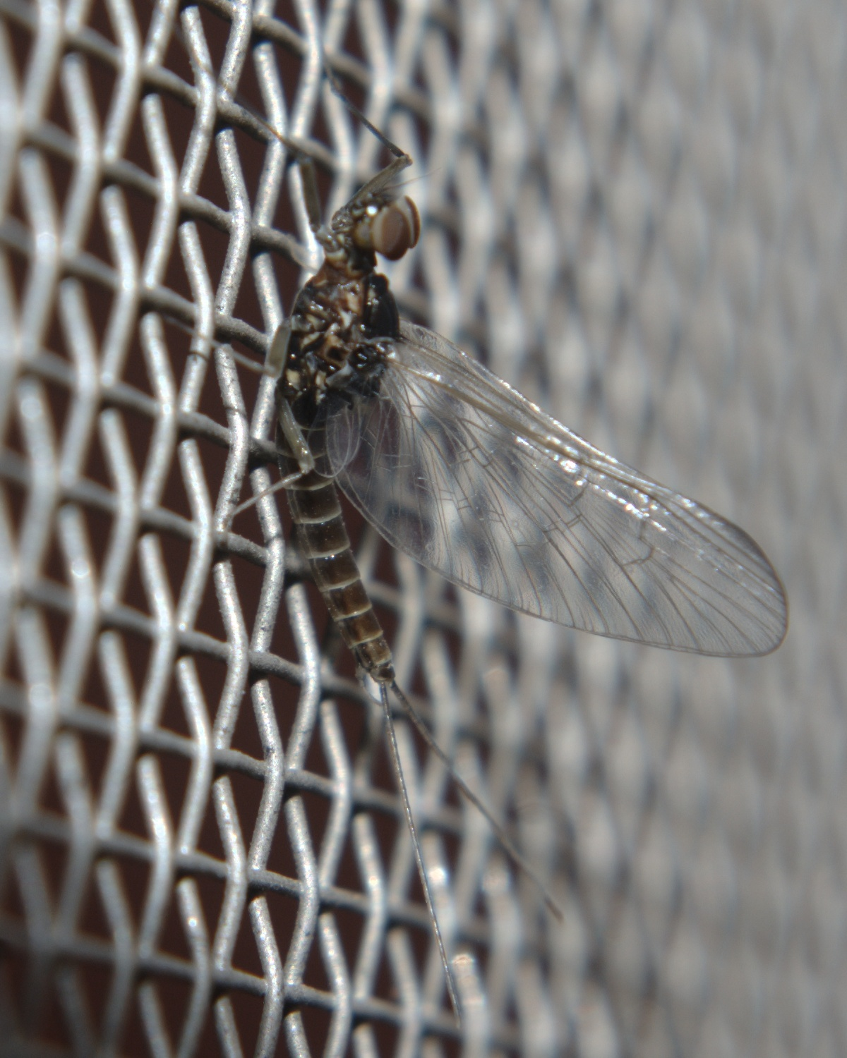 Male imago (adult) of the mayfly Baetis tricaudatus on my porch screen, Española, New Mexico. The screen mesh is 1/16 inch (about 1.6 mm). Thanks to Roger Rohrbeck at for identification.